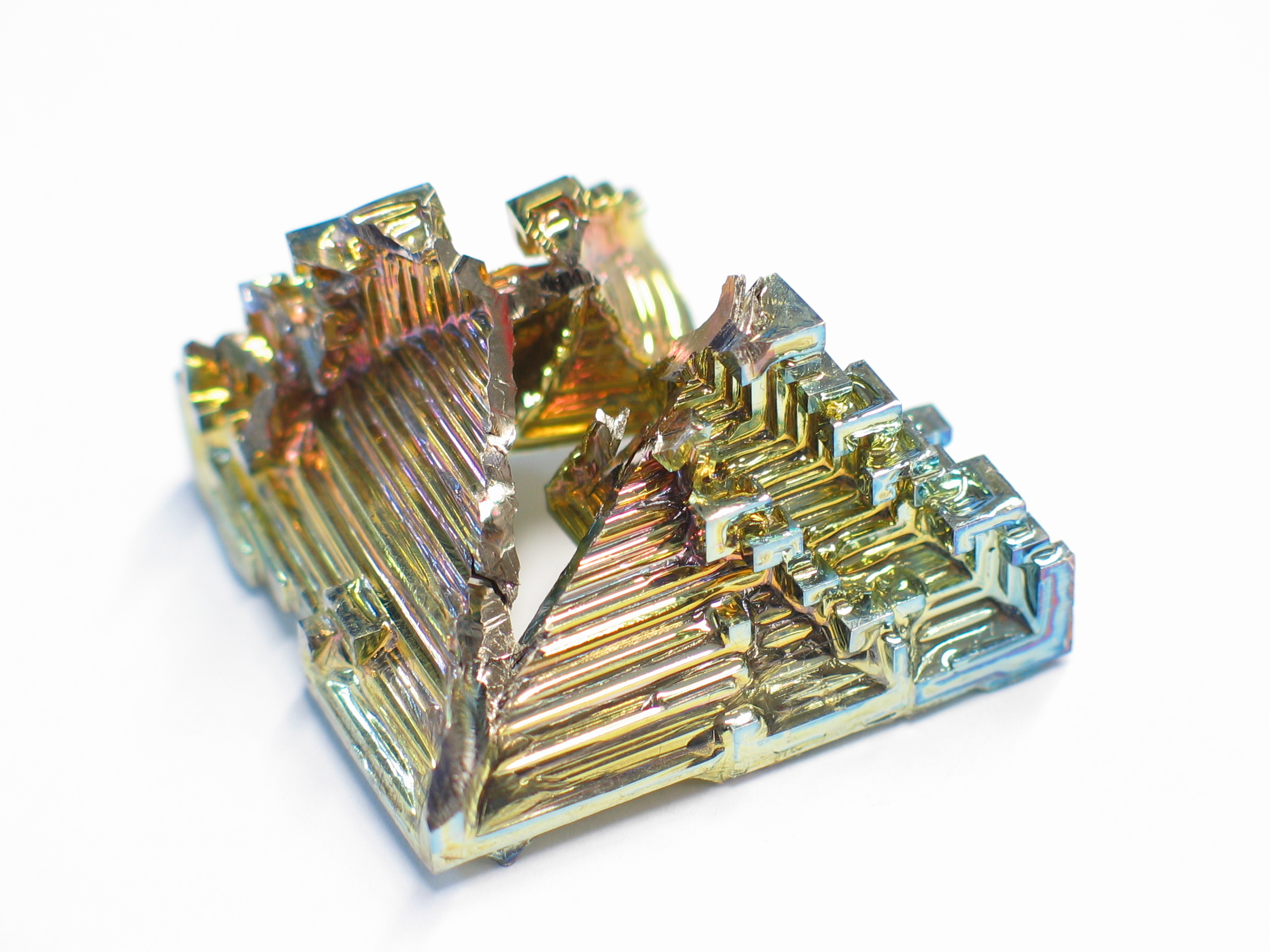 Bismuth crystal. Bottom front edge has a length of about 3.5cm. Iridescent colour is created due to interference effects in a thin oxide layer, which forms when the hot crystal is pulled out of the bismuth melt.